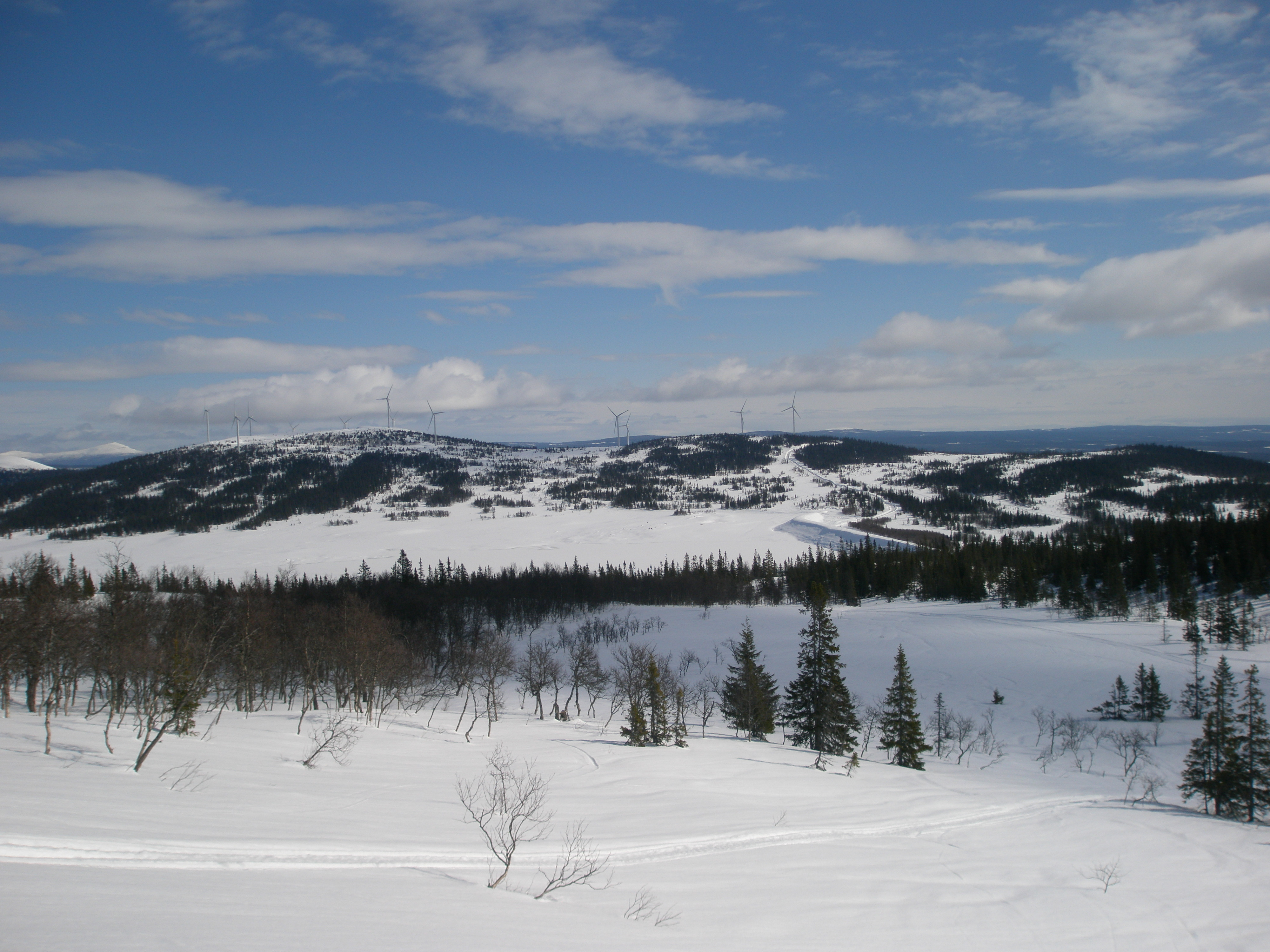 Övre Oldsjön, Offerdal, Krokoms kommun, Jämtland, Sweden.